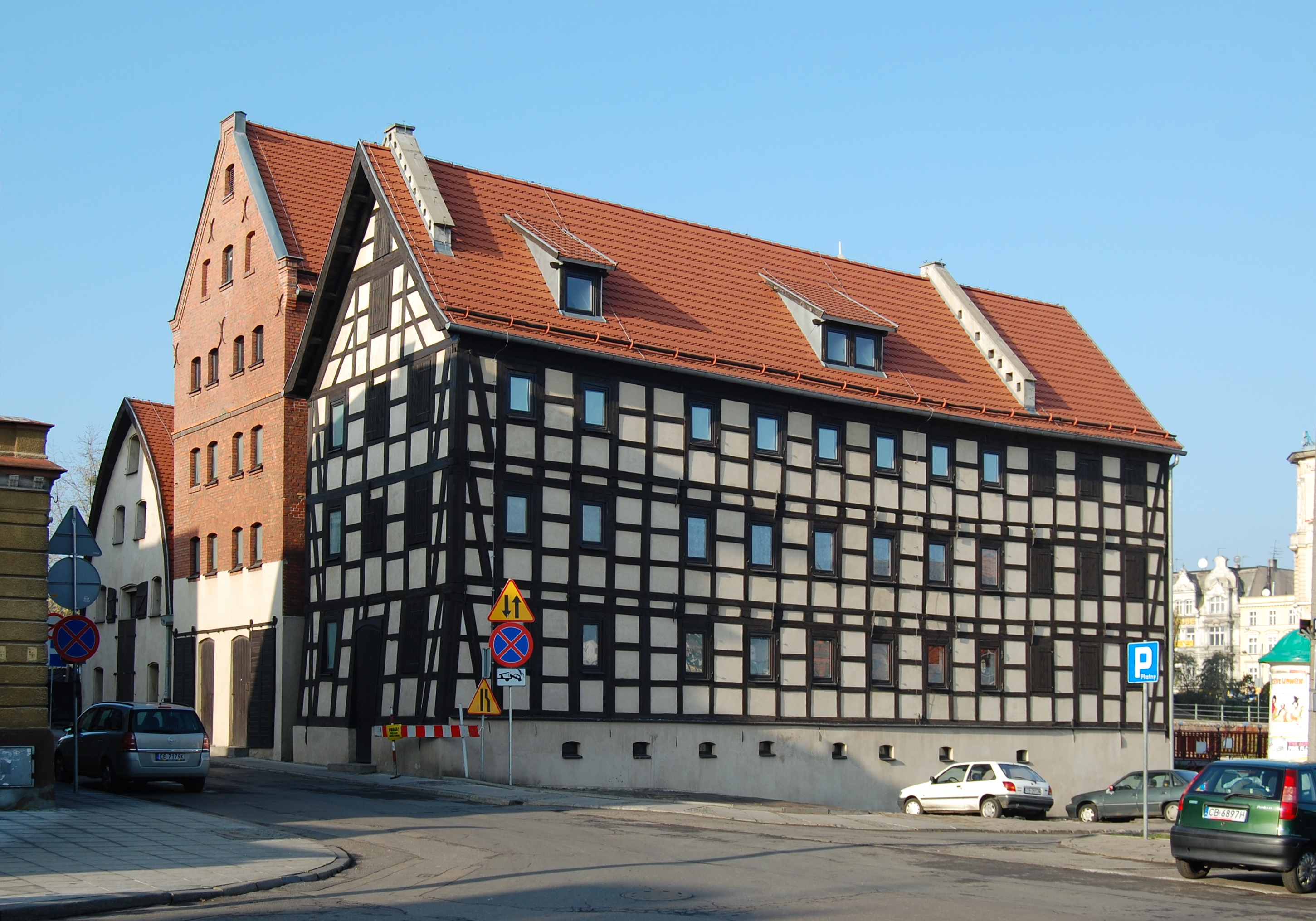 Granaries in Bydgoszcz, Poland.